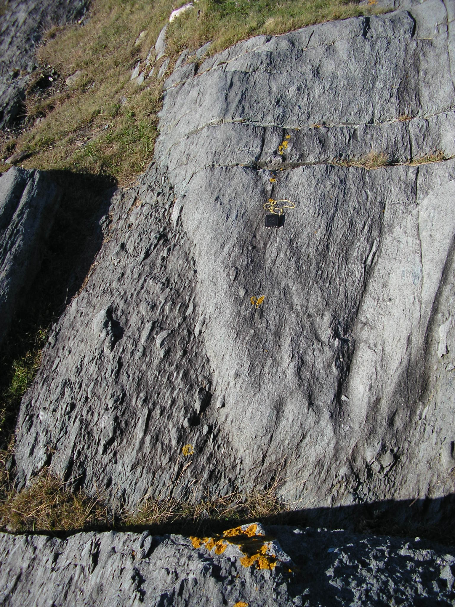 Volcanic sediments of the White Rock Fm showing original bedding defined by abrupt change in clast size and deformation fabric defined by cleavage in the matrix and shape fabric in the deformed volcanic clasts. Compass for scale, long side=10cm. Cape Forchu (by lighthouse), near Yarmouth, Nova Scotia.